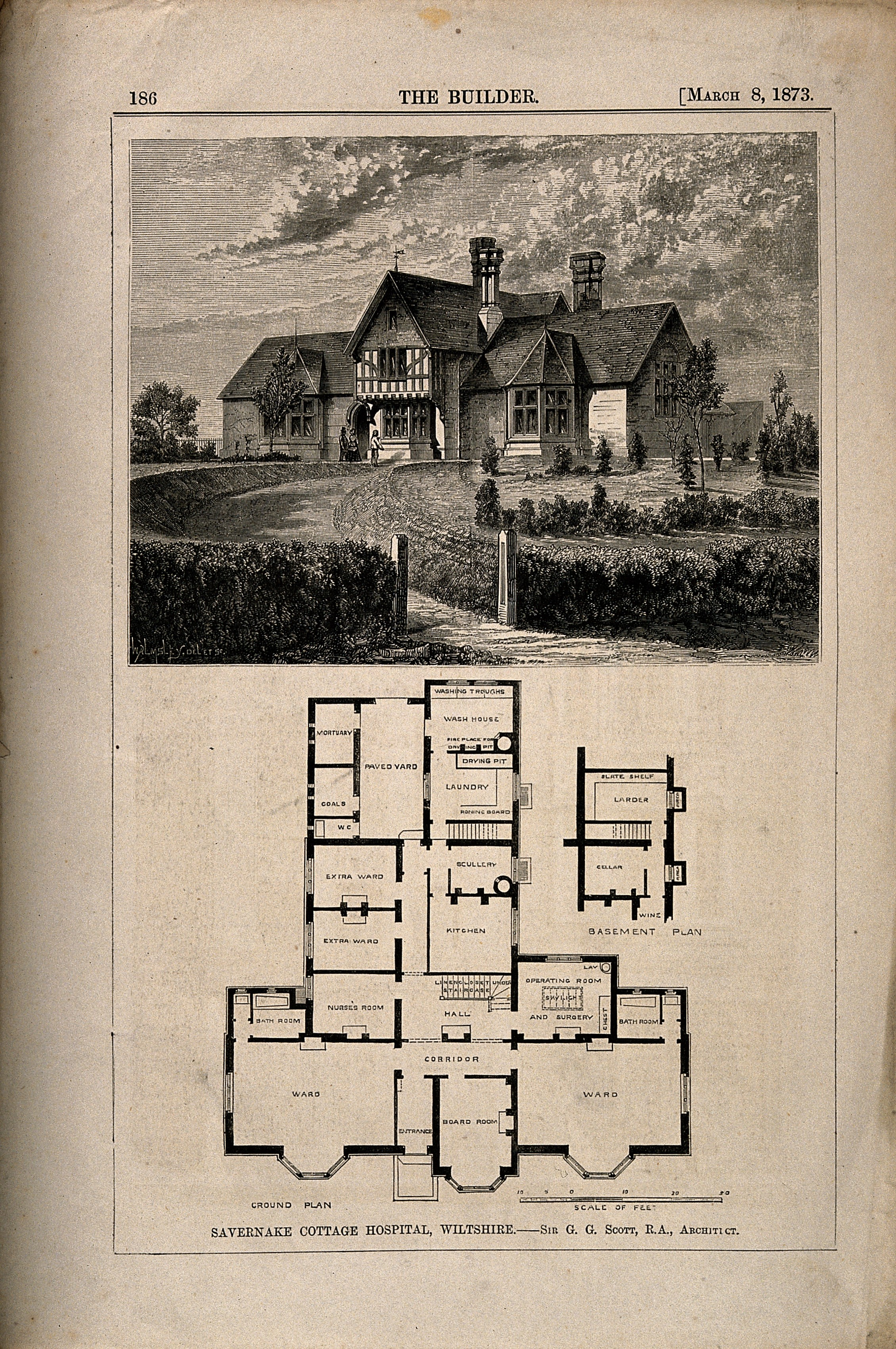 Savernake Cottage Hospital, Marlborough, Wiltshire: facade and floor plan. Wood engraving by J. Walmsley after himself, 1873, after Sir G.G. Scott. Iconographic Collections Keywords: John Walmsley; George Gilbert Scott